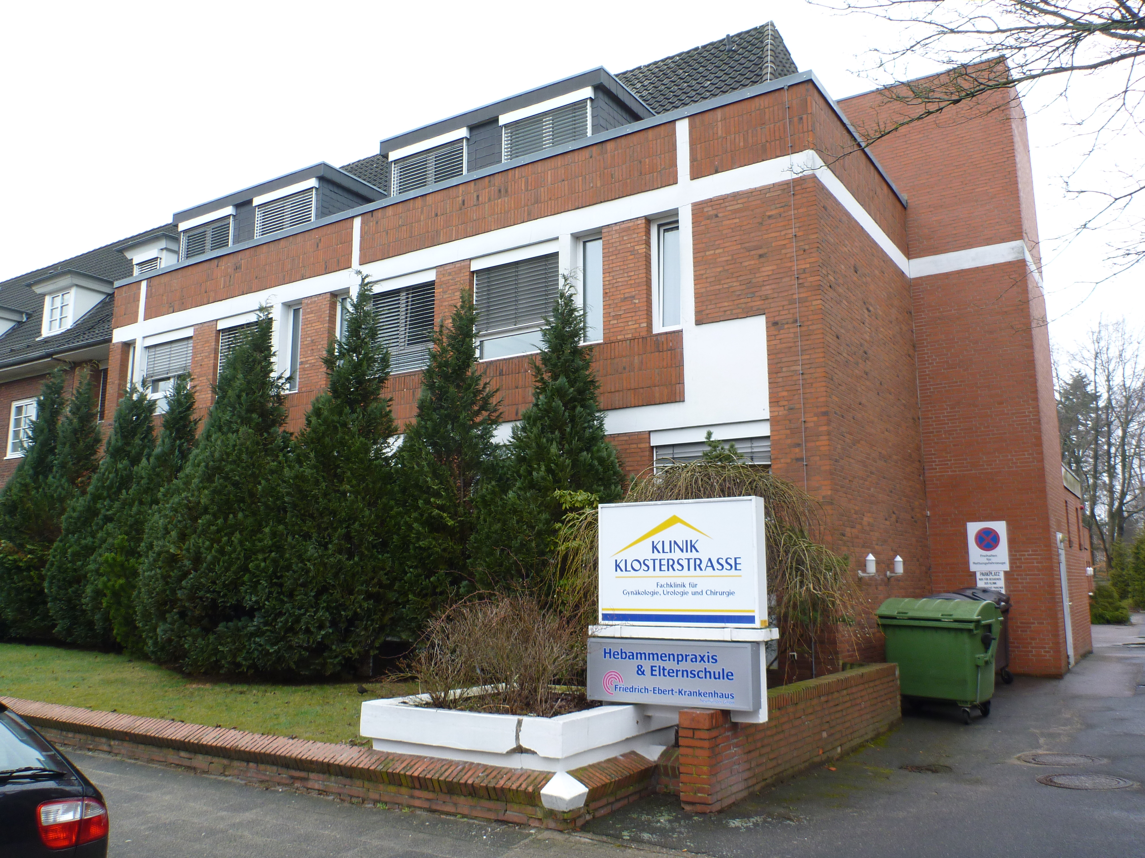 Klinik Klosterstraße of the Friedrich-Ebert-Krankenhaus Neumünster